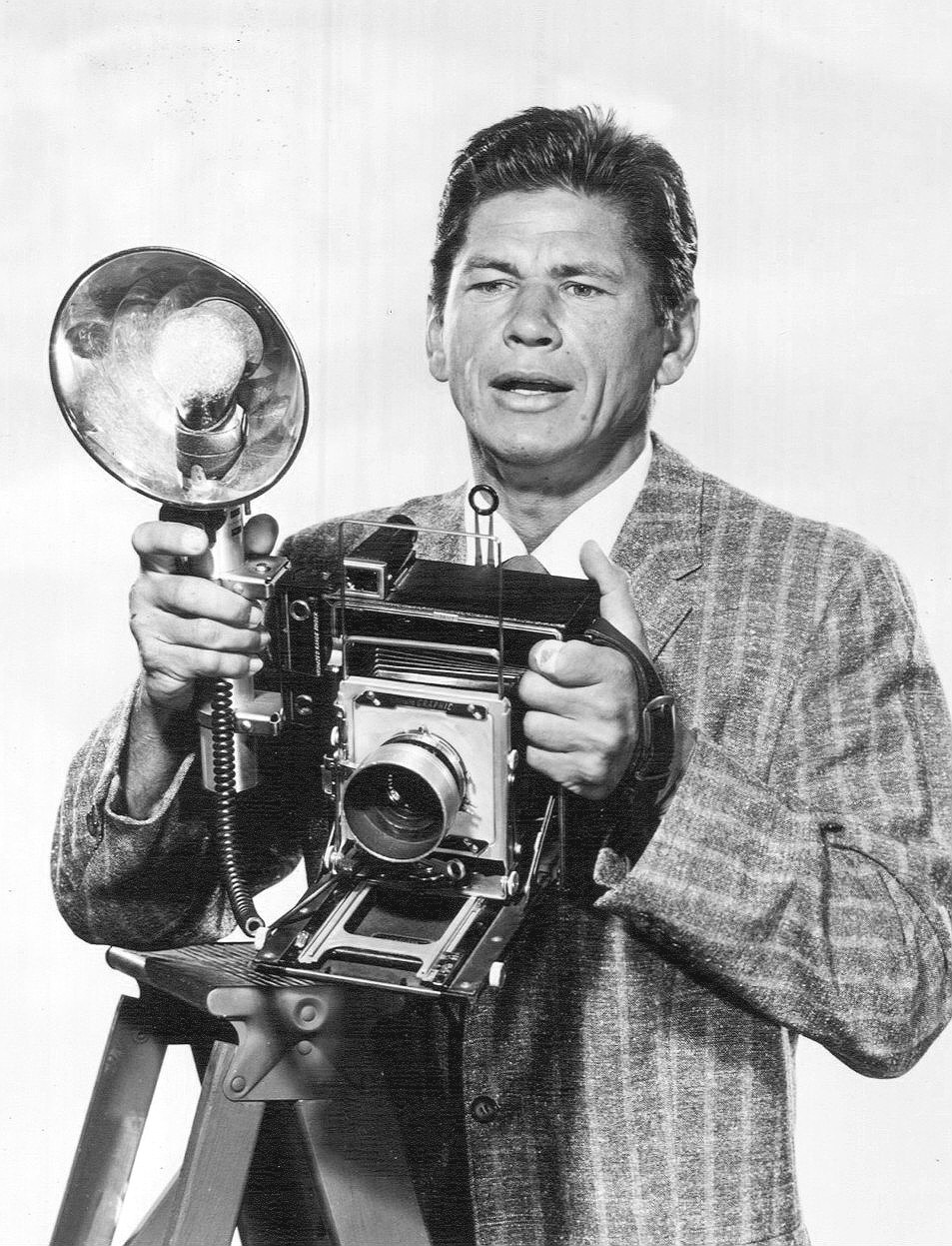 Photo of Charles Bronson as Mike Kovac from the television program Man With a Camera. (Probably a Speed Graphic camera.)